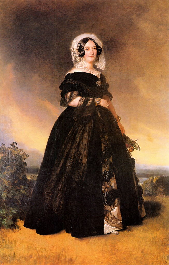 Victoria of Saxe-Coburg-Saalfeld, duchess of Kent